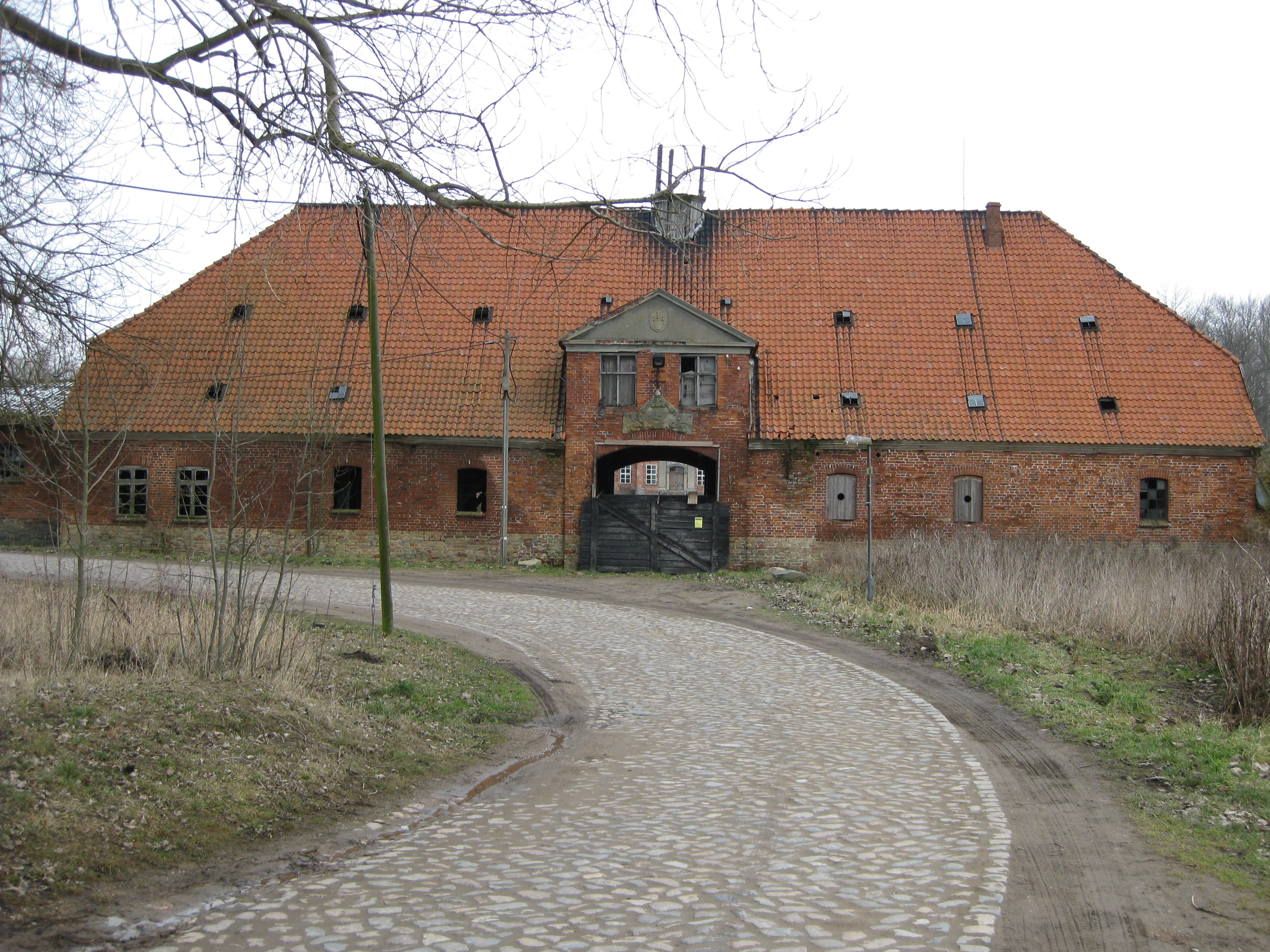 Gatehouse of Johannstorf manorhouse near Dassow in Mecklenburg. Fragments of ridge turret ontop of the roof